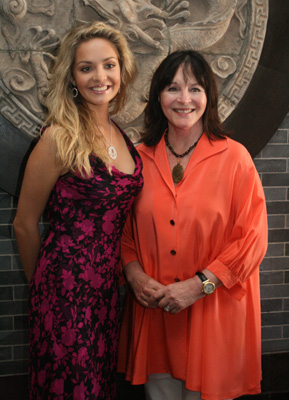 Miss World organizer Julia Morley with Miss World 2006 Tatiana Kucharova during Miss World 2007, Sanya, China